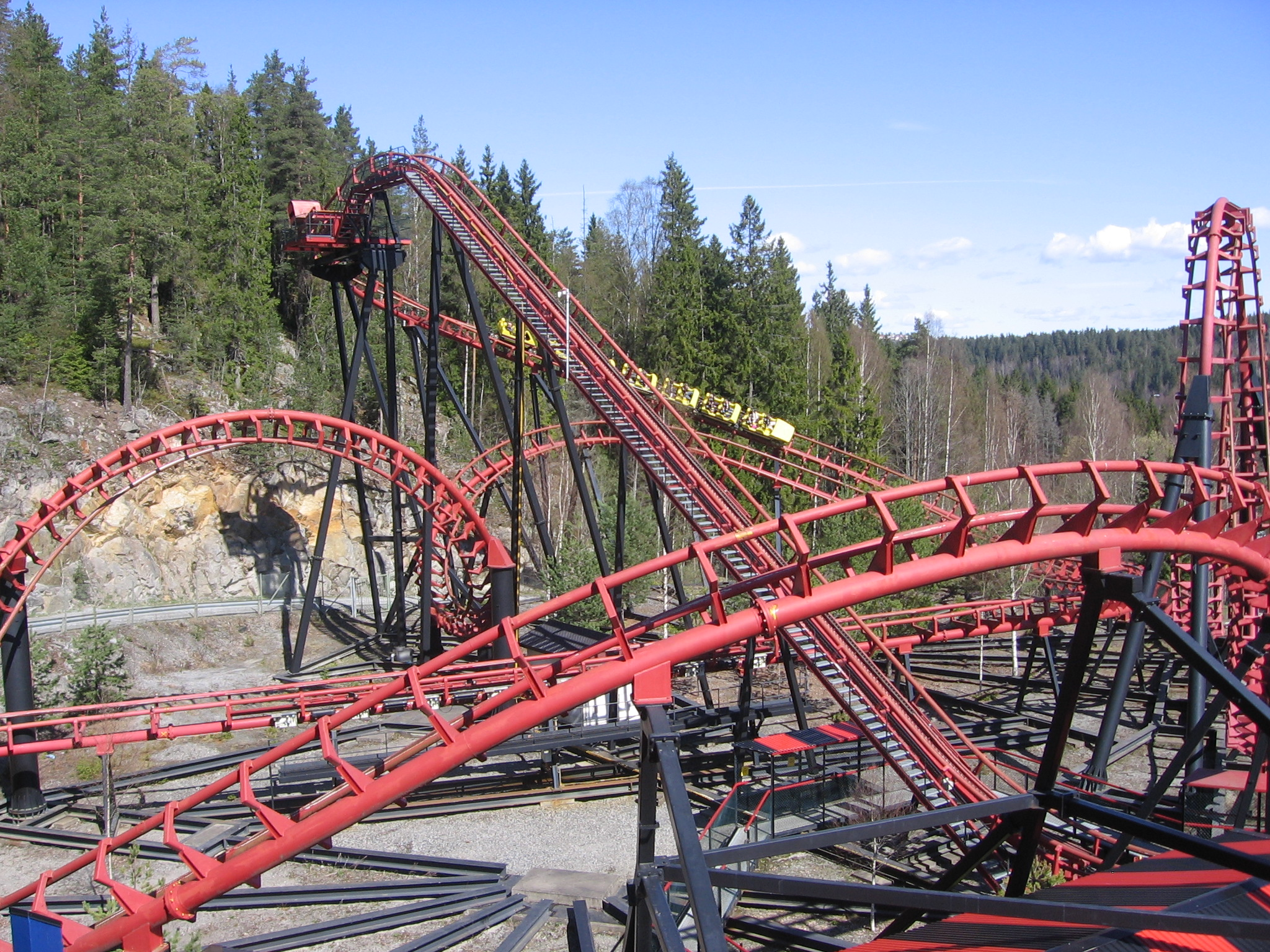 Loopen roller coaster in TusenFryt, Oslo.